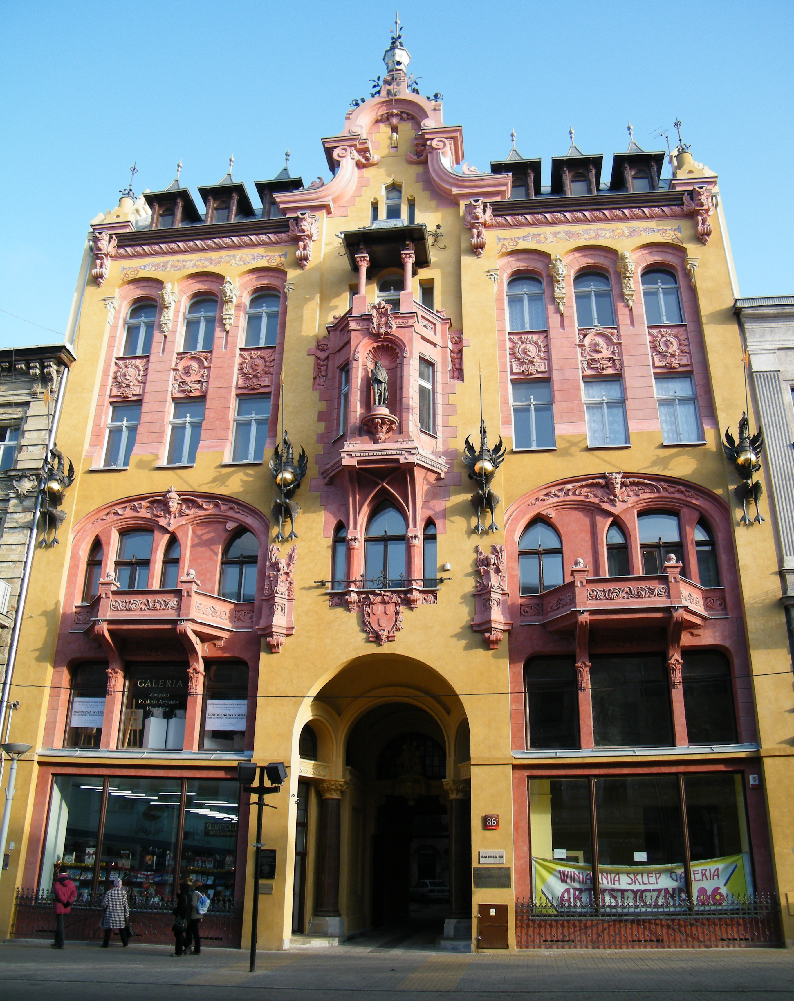 House under Gutenberg, Łódź